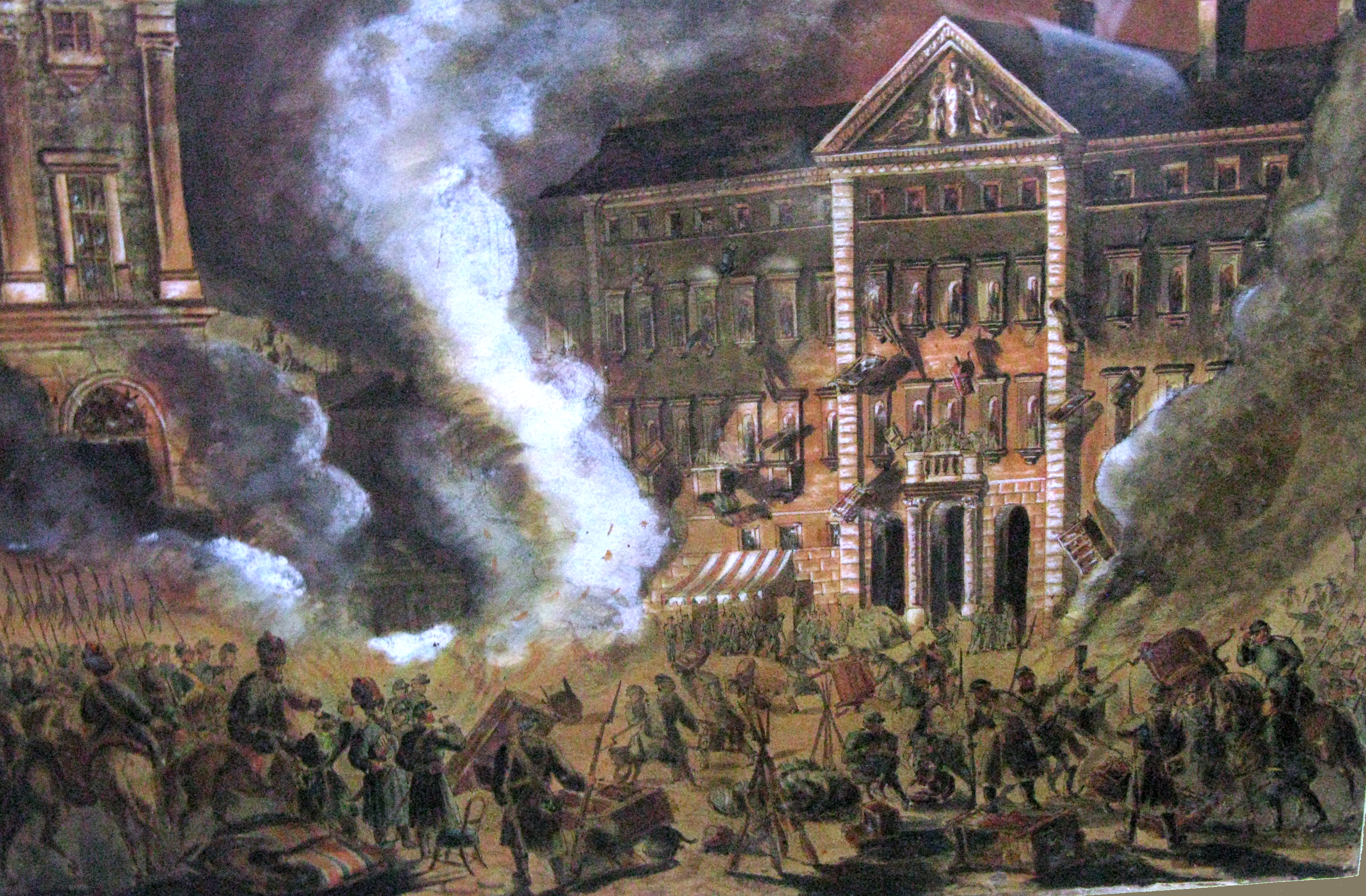 Russian Imperial Army demolishing Zamoyski Palace in Warsaw after assasination attempt 1863